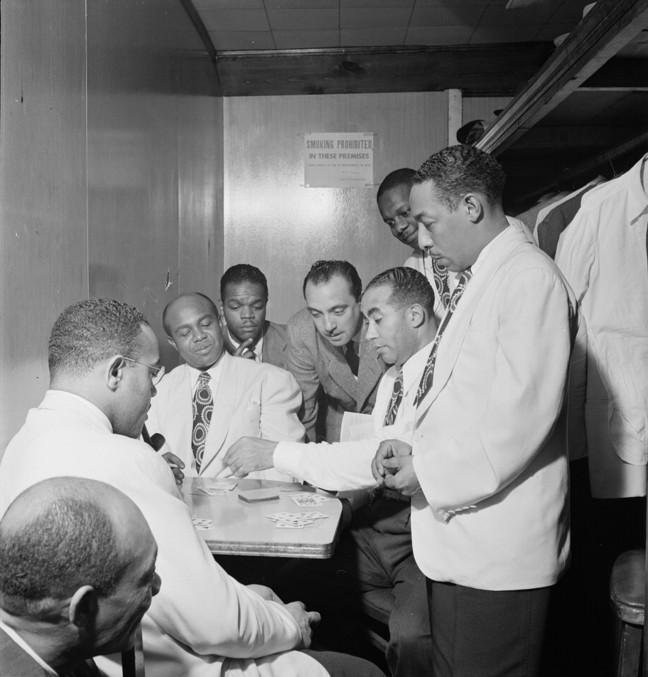 Photography by William P. Gottlieb: Al Sears, Shelton Hemphill, Junior Raglin, Django Reinhardt, Lawrence Brown, Harry Carney, Johnny Hodges at Aquarium, NYC, ca. November 1946